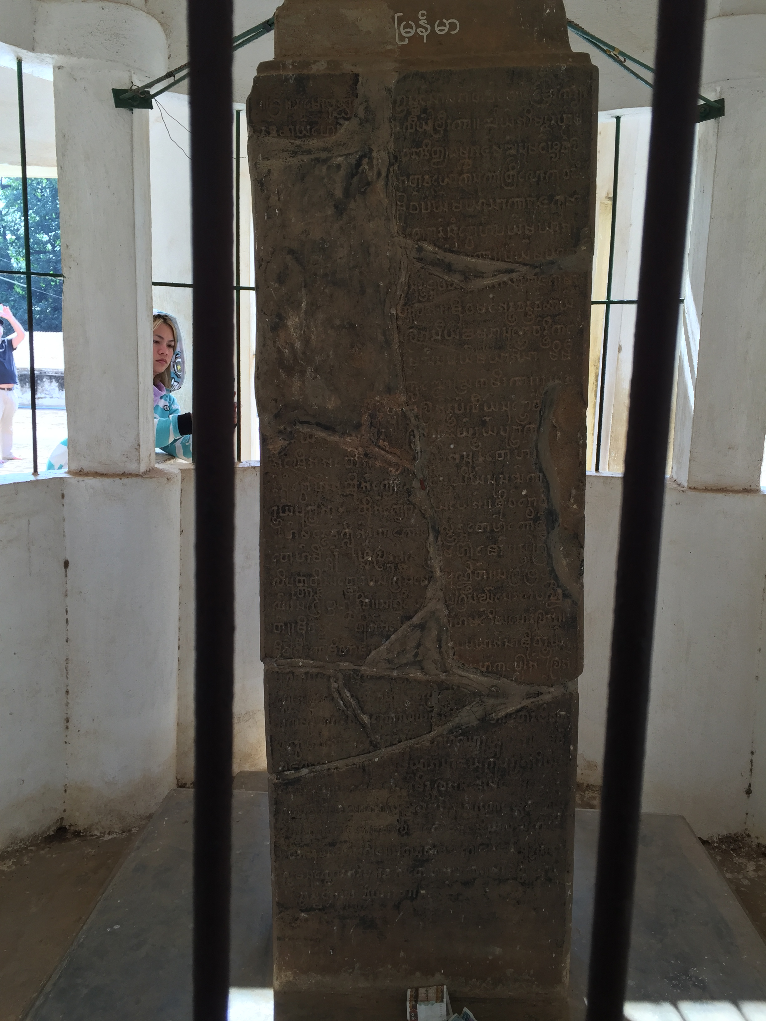 Myizedi inscription-Burmese side မြန်မာဘာသာ: မြစေတီကျောက်စာ ဗမာစာမျက်နှာ